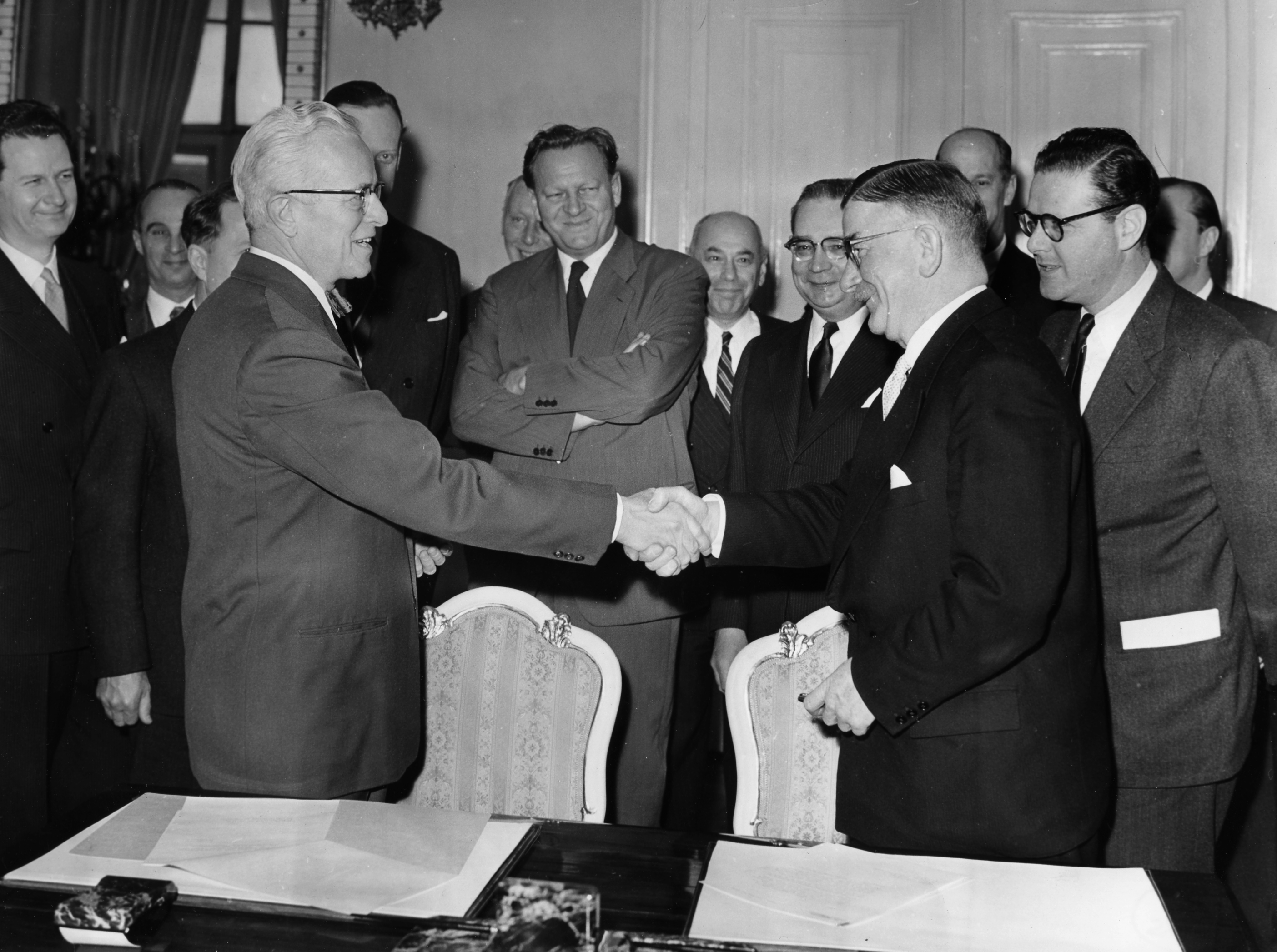 An exchange of notes between Mr. Leopold Figl, Austrian Minister of Foreign Affairs, and Mr. Sterling Cole, Director General of the IAEA, took place in Vienna on 26 February 1958, by which the Headquarters Agreement between the Austrian Republic and the IAEA, signed on 11 December 1957 and recently approved by the Austrian Constitutional bodies, will become formally effective as of 1 March 1958. Mr. Figl and Mr. Cole are seen shaking hands after the ceremony. In the background are senior officials of the Austrian Federal Chancellery and of the International Atomic Energy Agency. (26 February 1958) Copyright: IAEA Imagebank Photo Credit: IAEA